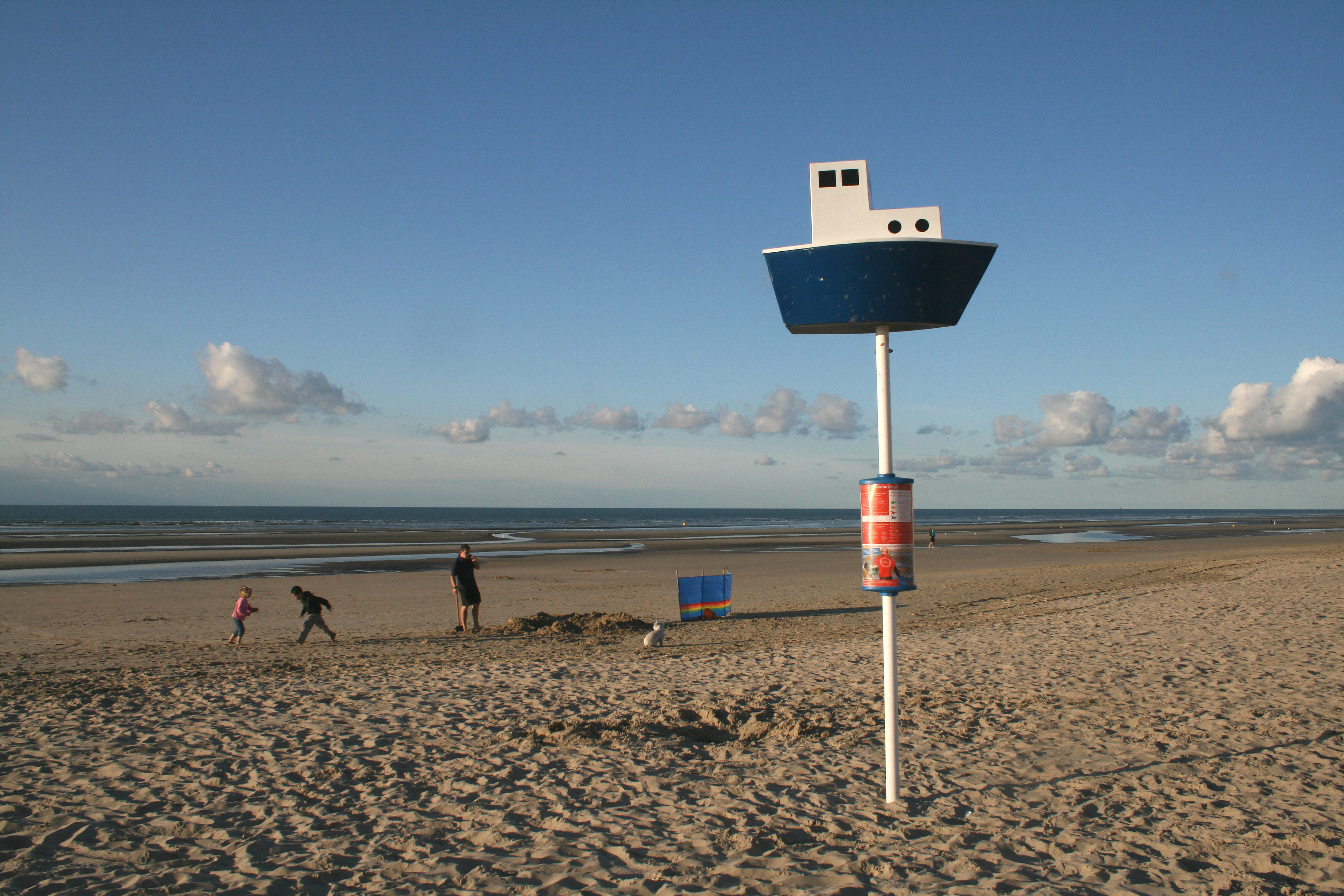 The boat in the clouds - Beach of Bray-Dunes (Nord) (France).